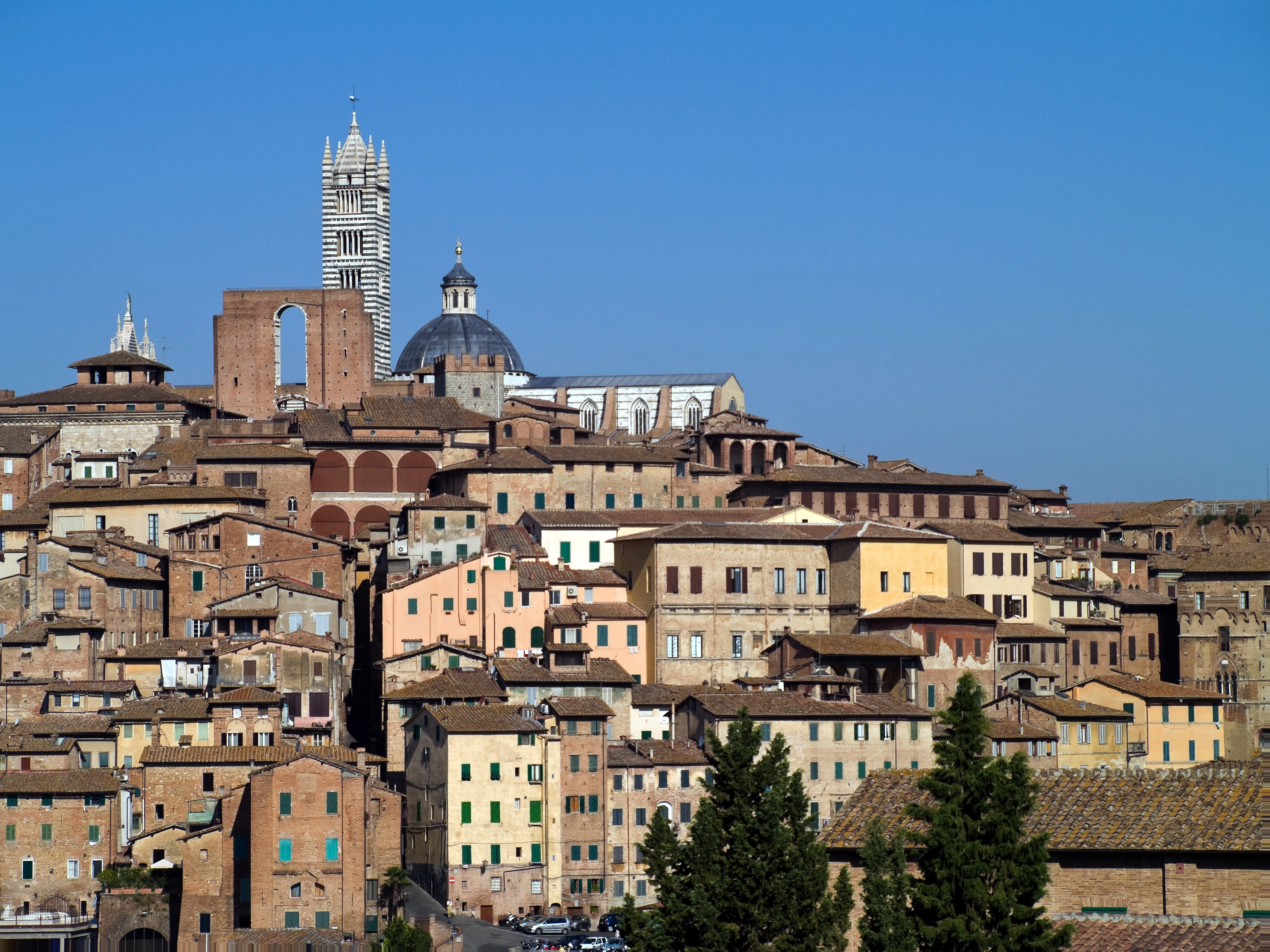 Siena, seen from Santa Maria dei Servi. On the top of the hill, the cathedral of Siena (Santa Maria Assunta or Duomo di Siena) and the Facciatone.